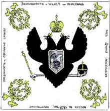 Flag of the Azov Cossack troops (1 June 1844)